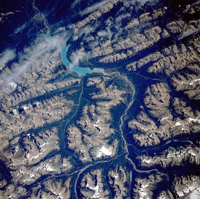 North Saskatchewan River, Alberta, Canada - August 1989